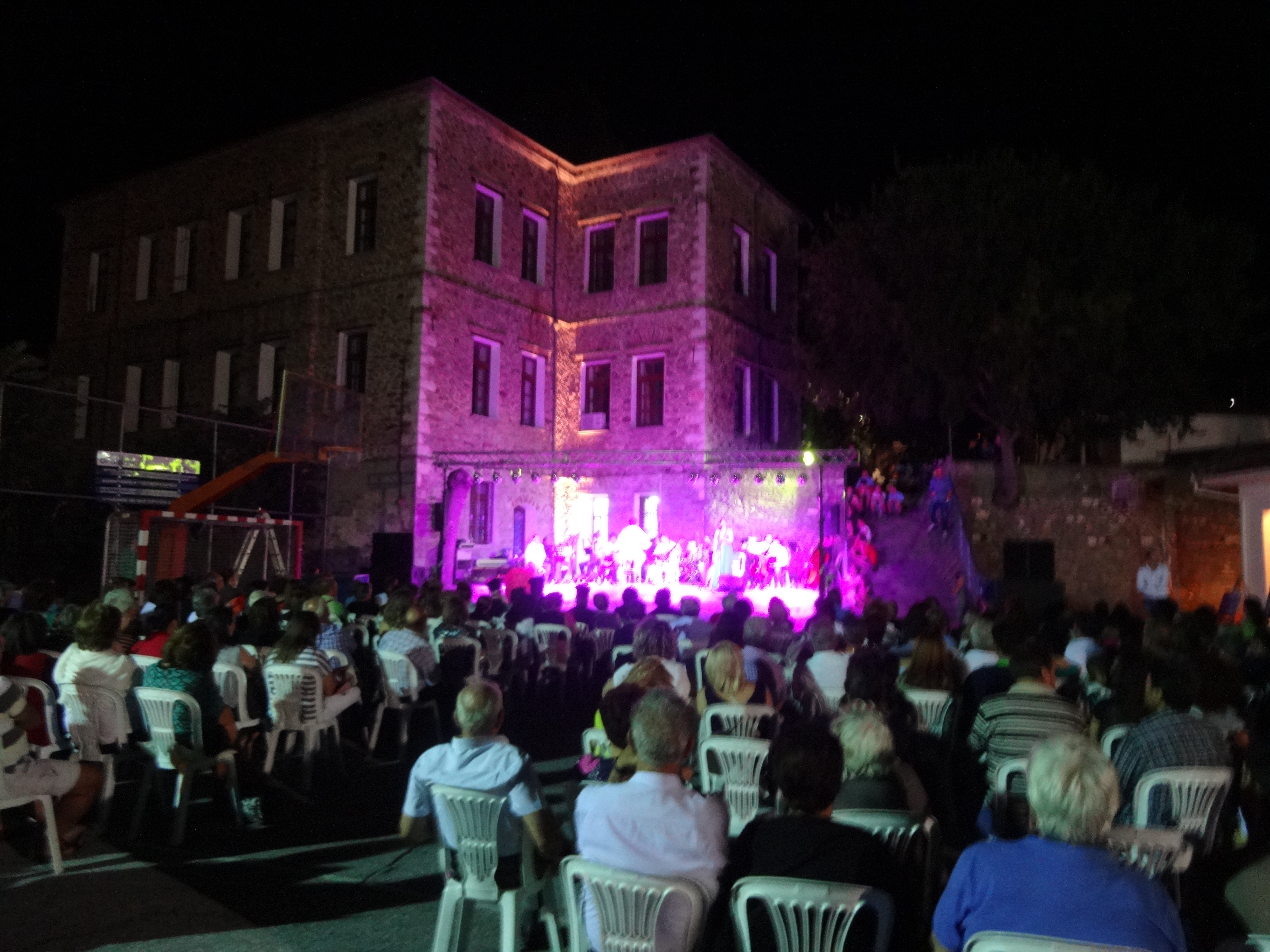 Tsaritsani, Greece. Concert by night.